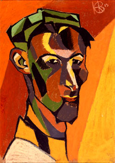 Self portrait by Henri Gaudier-Brzeska, pastel on paper.